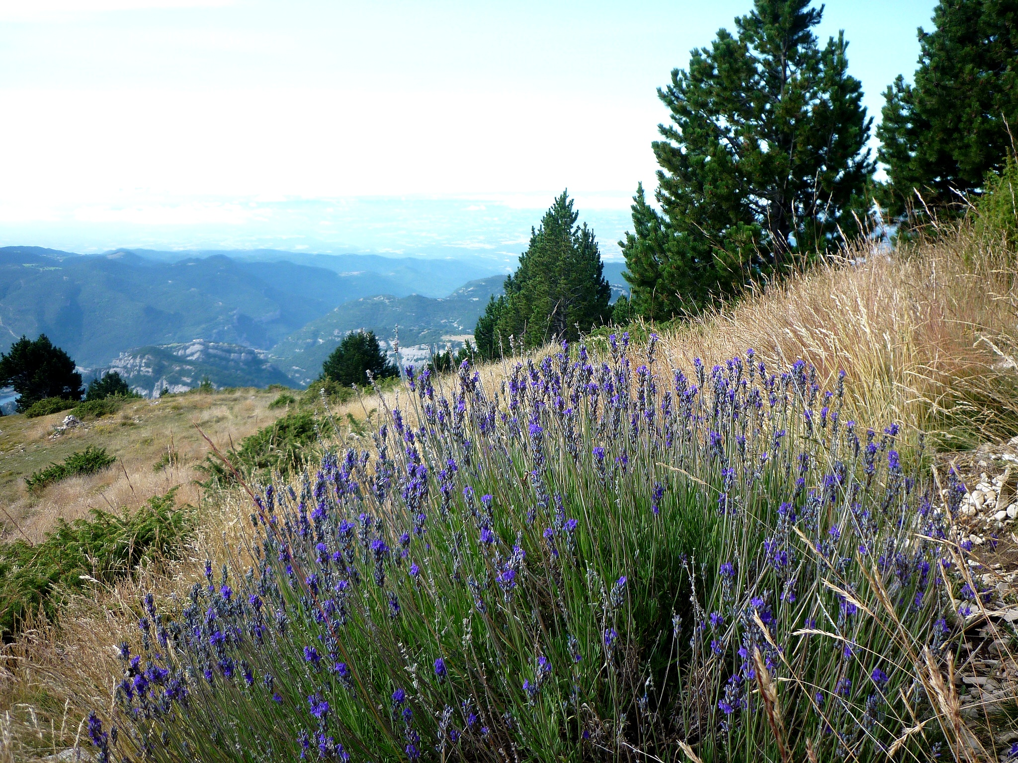 Lavandula angustifolia. In la Bòfia, Guixers (Solsonès - Catalunya). To 1.980 m. altitude